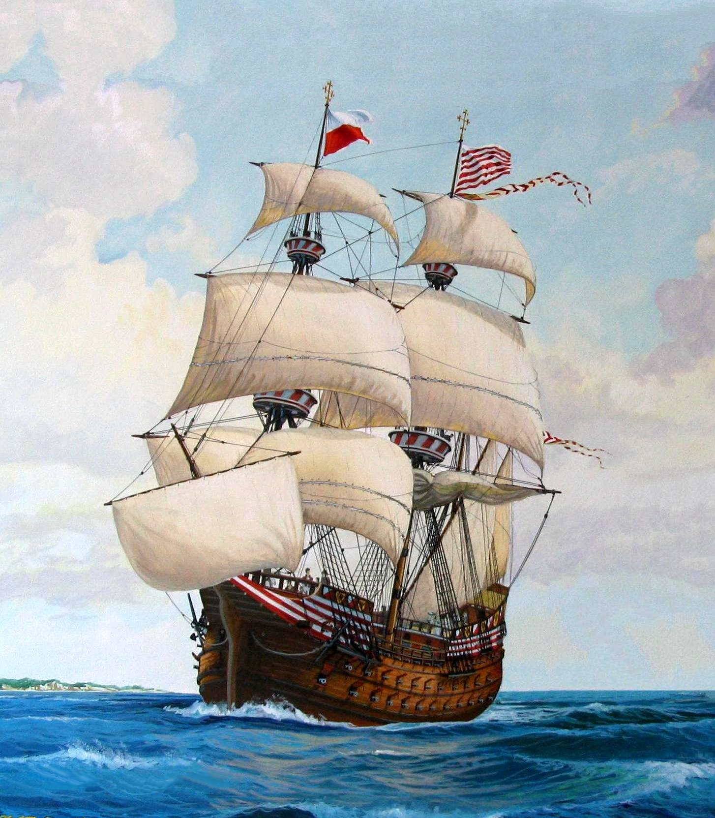 Hanseatic league flagship Adler von Lübeck (1567-88)